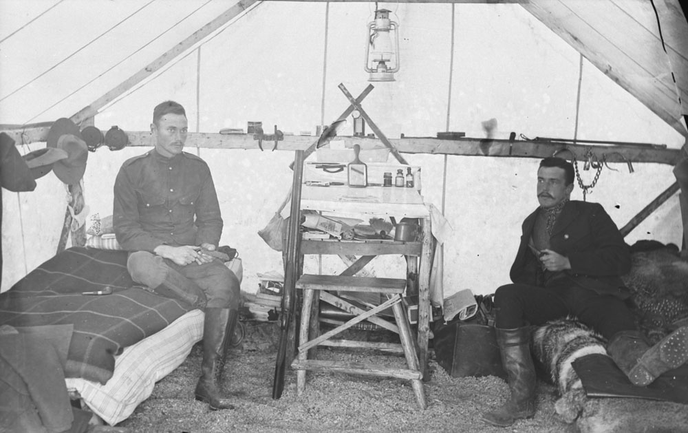 NWMP in Yukon in tent; copyright expired